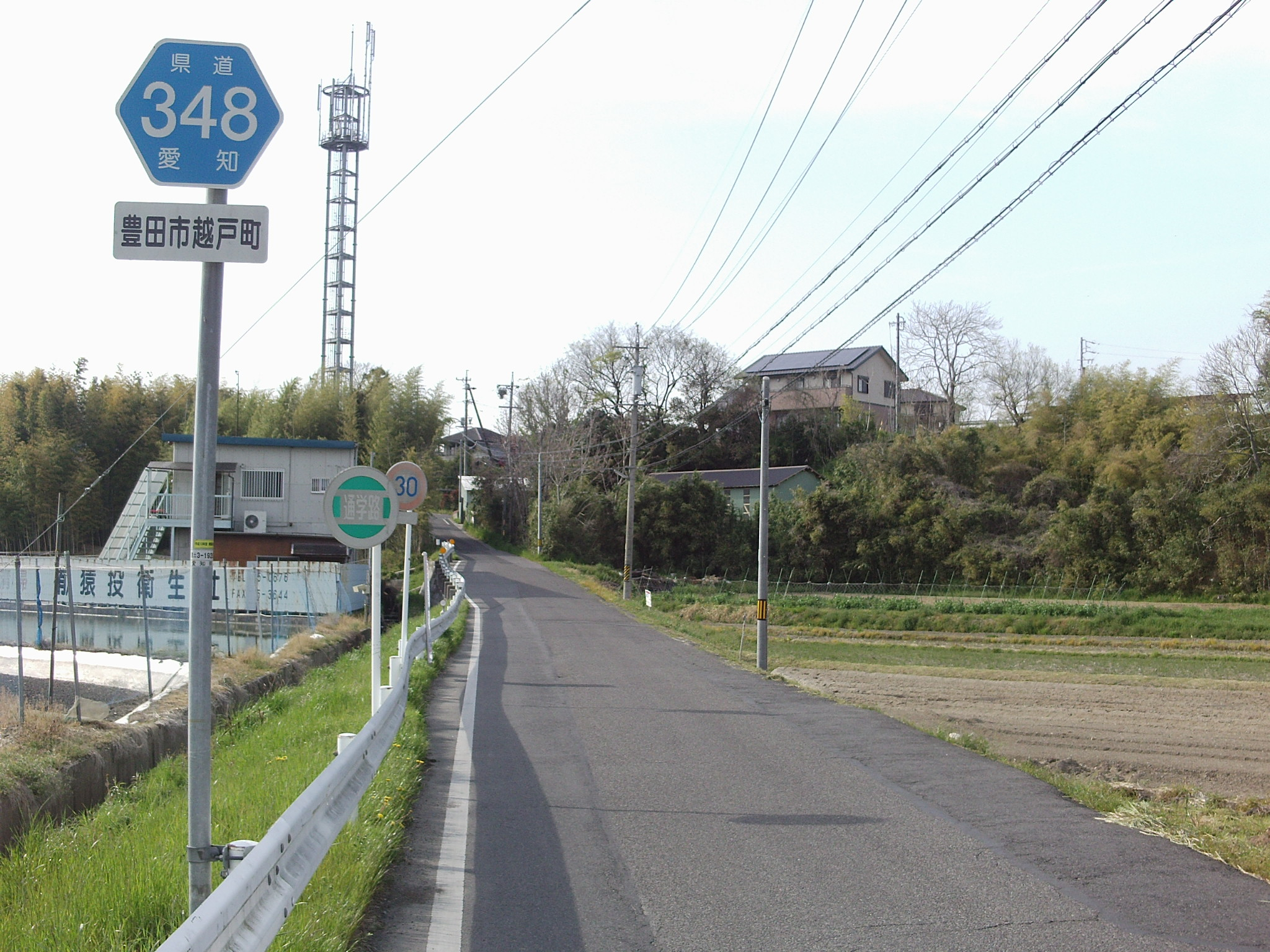 Aichi prefectural road No.348 in Koshidocho, Toyota, Aichi.